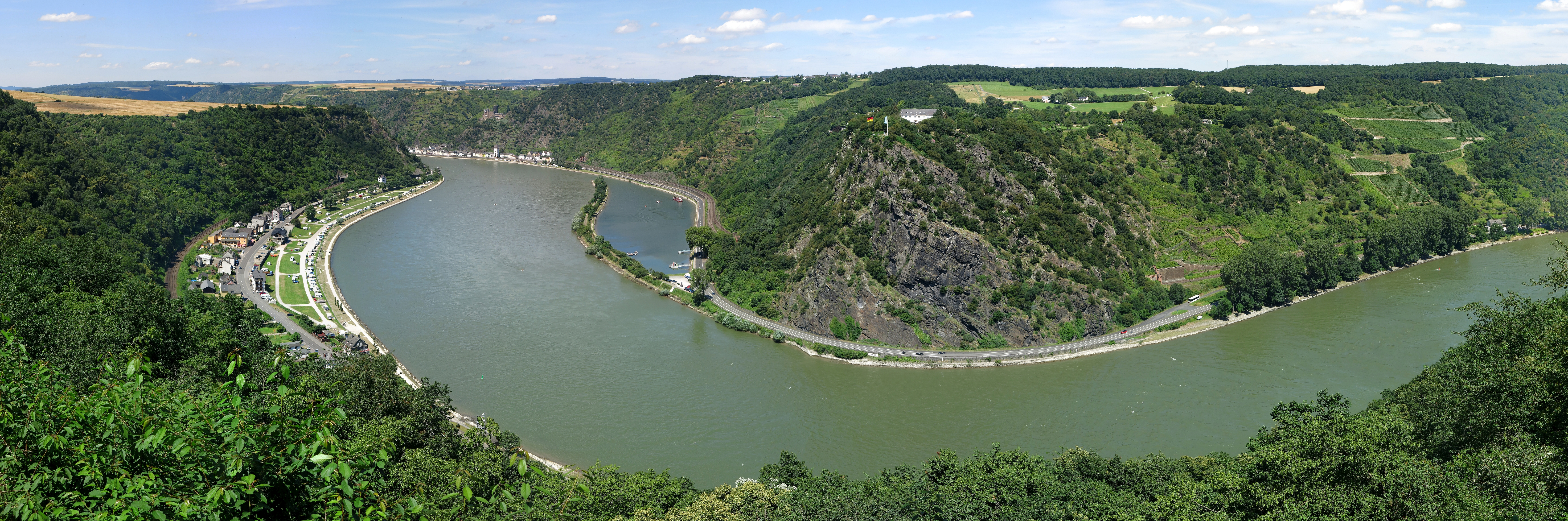 Perspective from the viewpoint Maria Ruh near Urbar over the Rhine to the Lorelei.